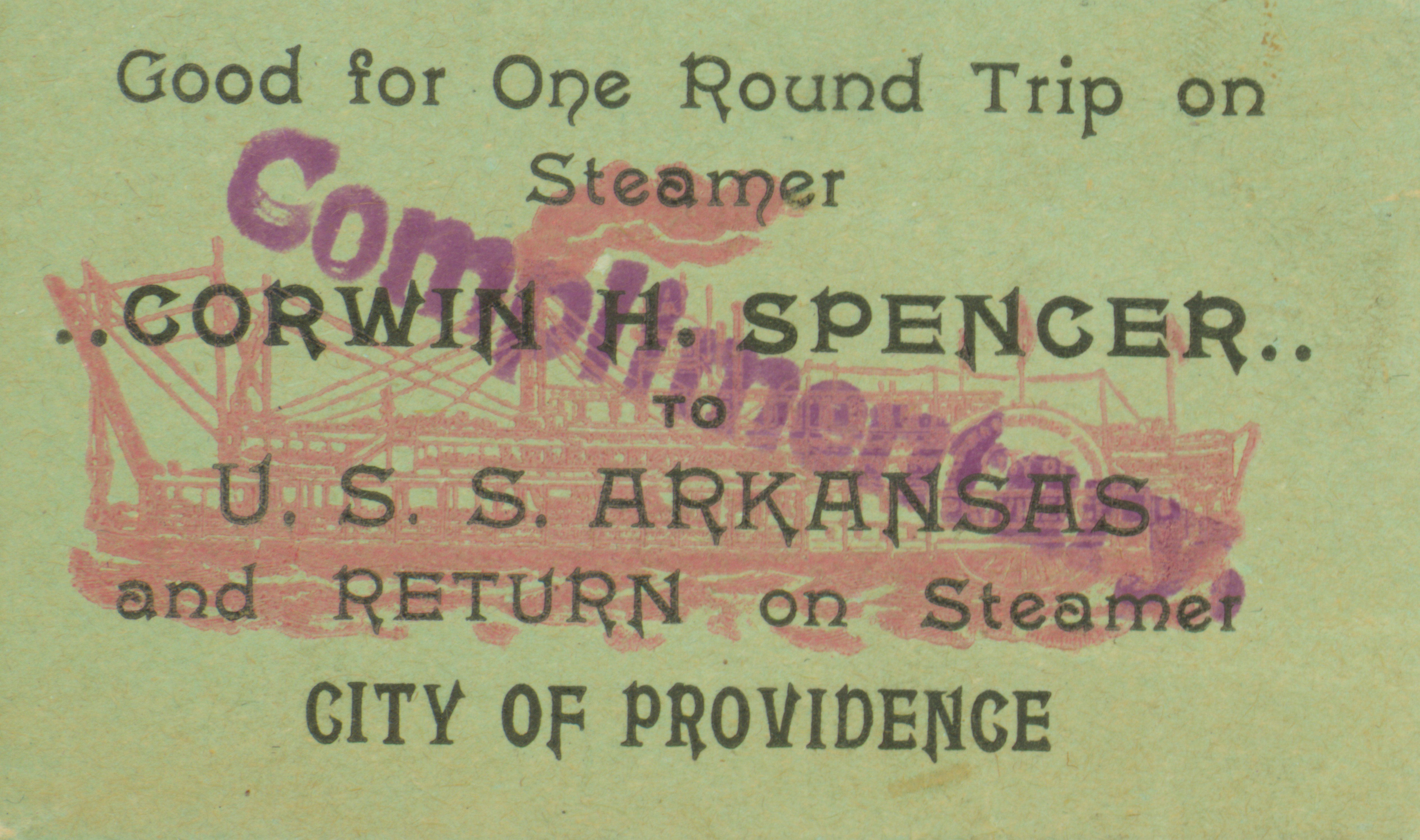 Title: Complimentary round-trip ticket on the Corwin H. Spencer and return on the City of Providence, ca. 1903-1905